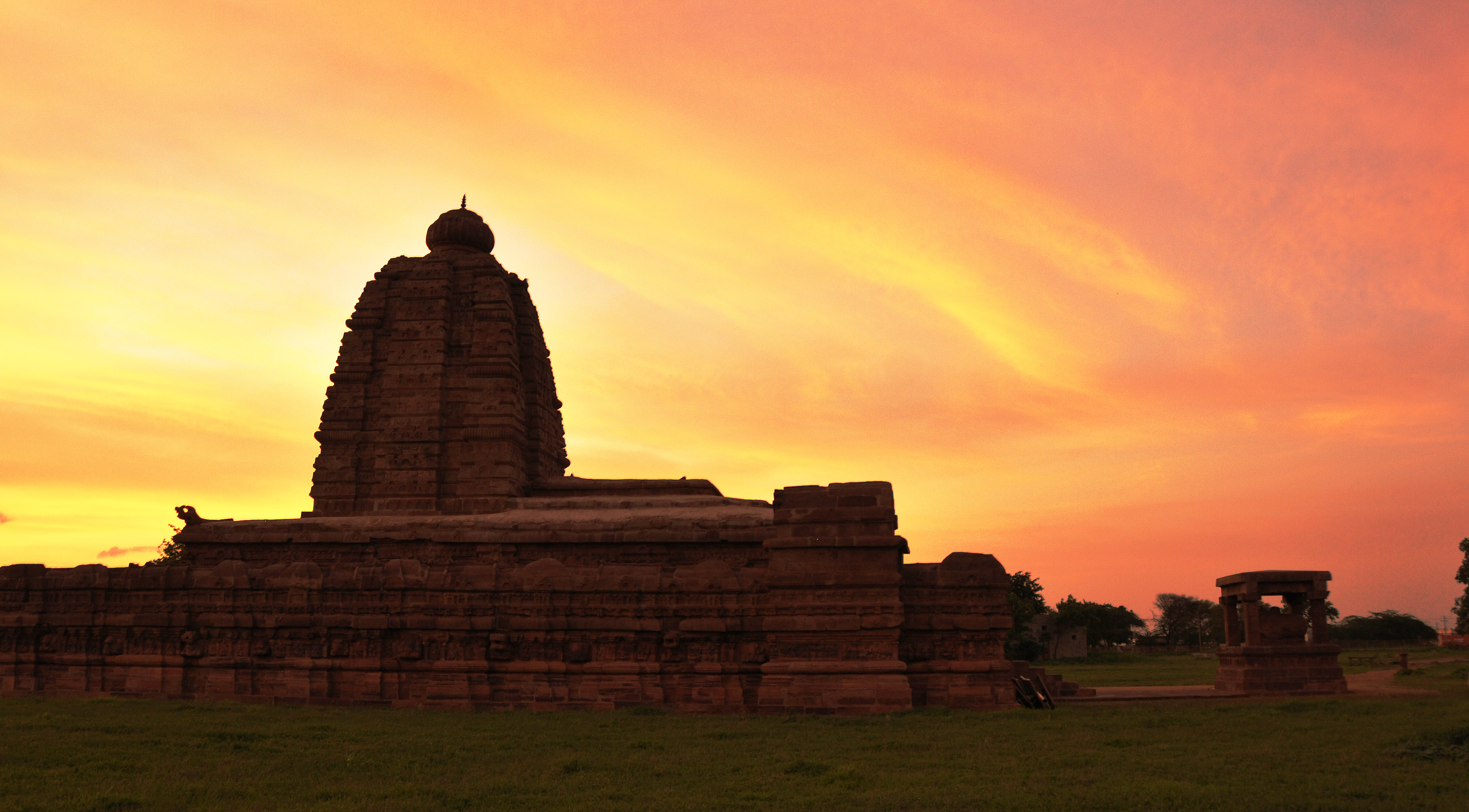 Sangameshwara Temple, Alampur, Andhra Pradesh.